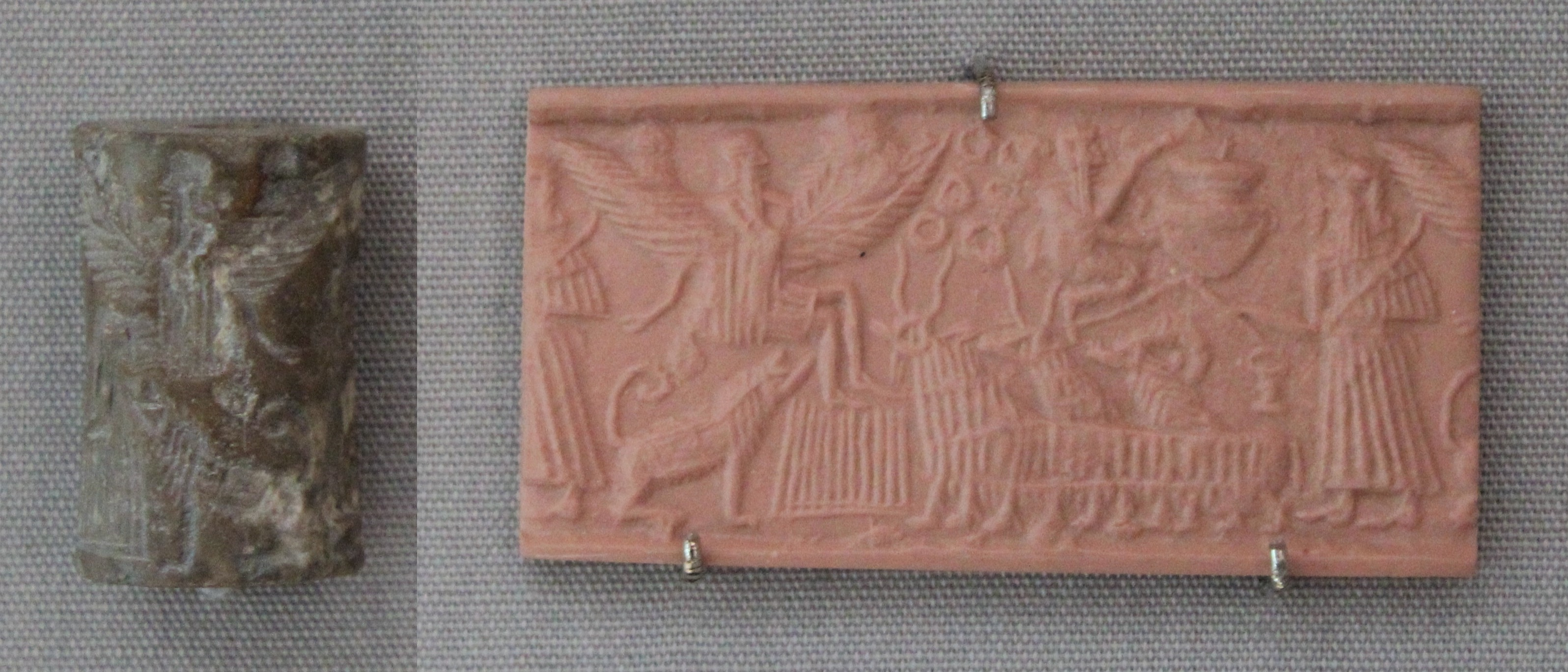 Limestone cylinder seal and impression, Akkad period, c. 2250 BC Illustrating the myth of Etana, shepherd and legendary king of Kish, who was carried up to heaven by an eagle to obtain the plant of life that would give him a child. This seal portrays Etana’s ascent, witnessed by a shepherd, a dog, goats and sheep; above a man working on a churn. BM 89767.